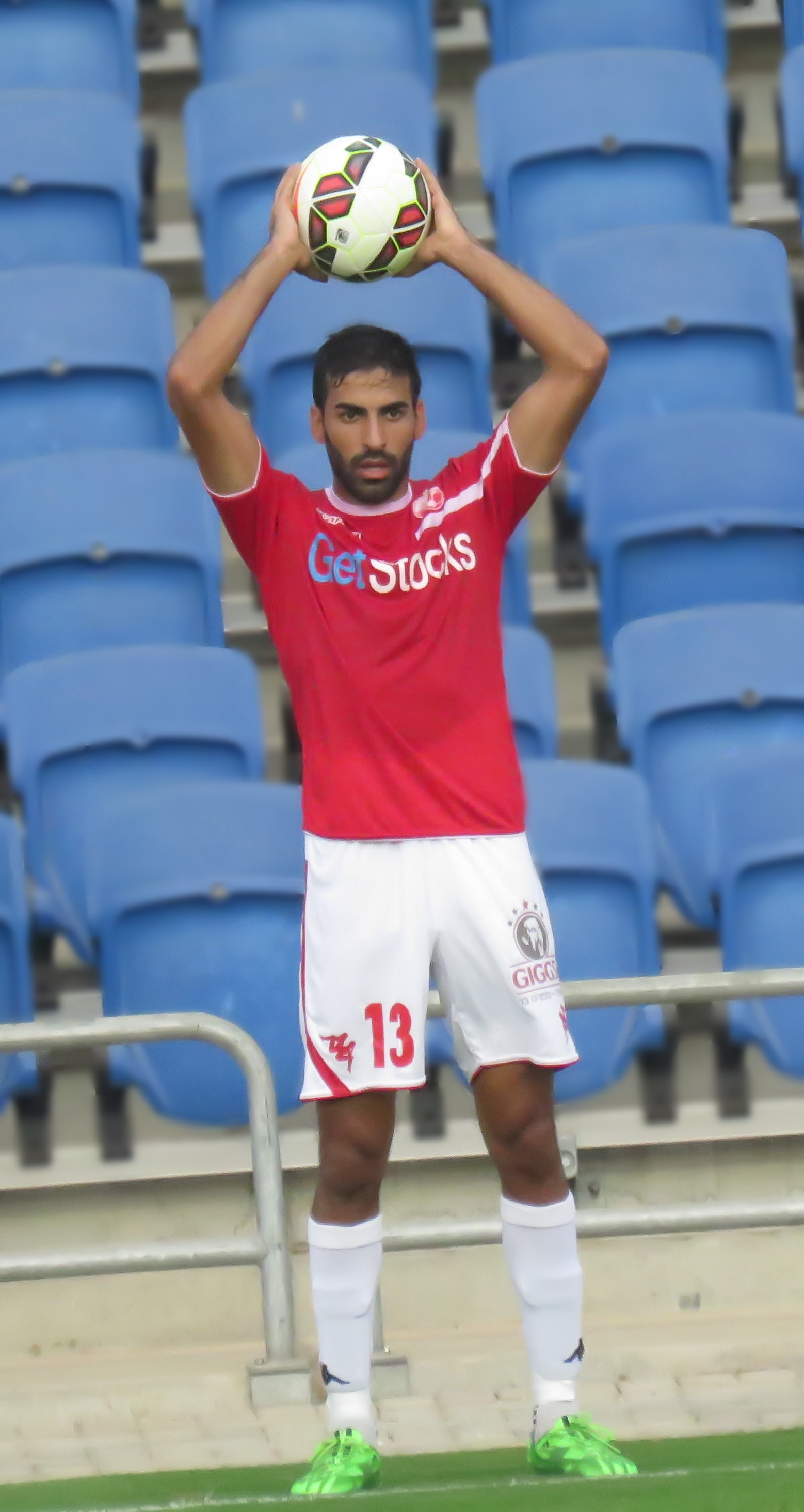 Hapoel Ra'anana vs. Hapoel Be'er Sheva - September 12, 2015